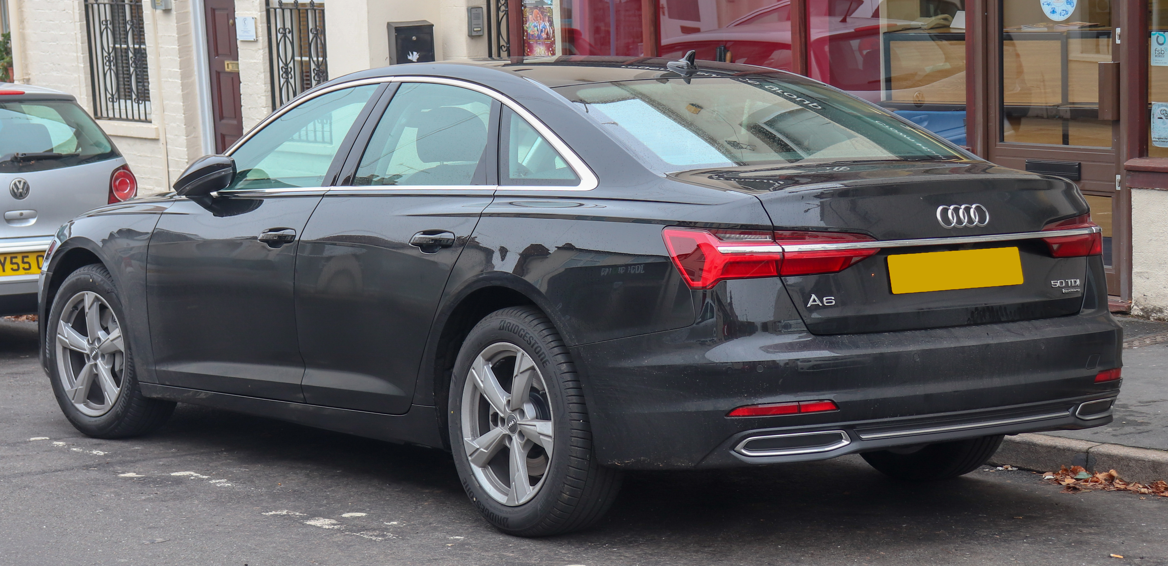 2018 Audi A6 TDi Quattro Rear Taken in Leamington Spa